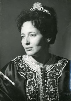 Lalla Aïcha, princess of Moroccco.